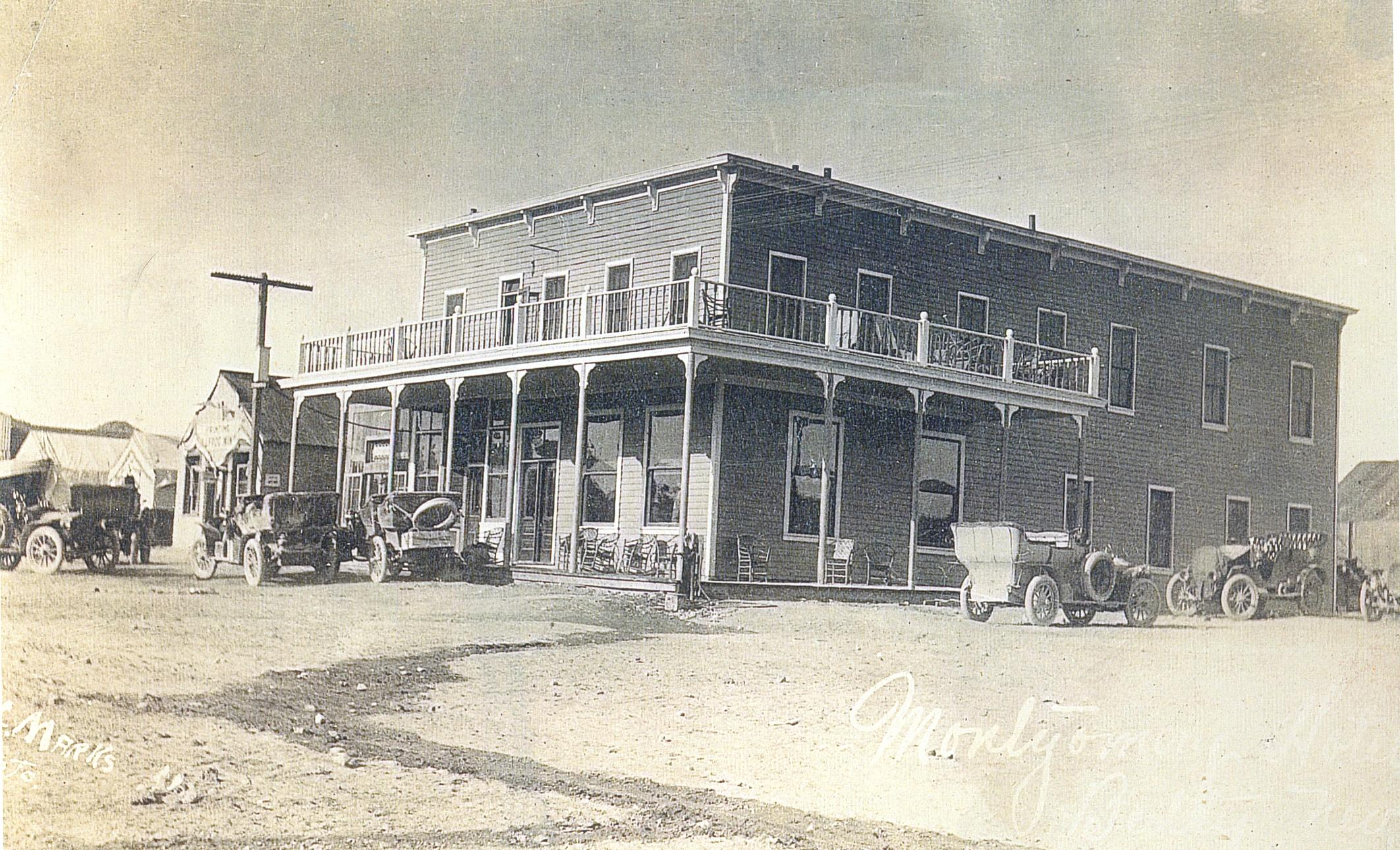 This was located at the corner of 3rd and main. It was opened in 1905 by Bob Montgomery. Was dismantled and moved to Pioneer in 1909. Later it burned down. There is a church here now that is the private residence of the McCoys.